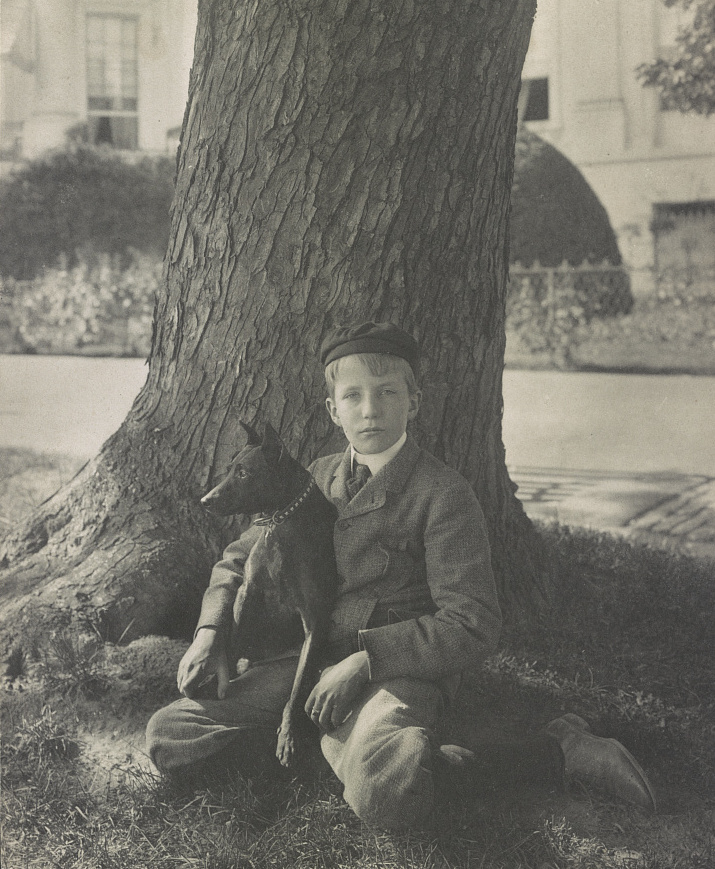 Title Kermit Roosevelt and his dog Jack Contributor Names Johnston, Frances Benjamin, 1864-1952, photographer Created / Published [1902] Subject Headings - Roosevelt, Kermit,--1889-1943 - Dogs--1900-1910 Format Headings Photographic prints--1900-1910. Portrait photographs--1900-1910. Genre Portrait photographs--1900-1910 Photographic prints--1900-1910 Notes - Title from item. - Frances Benjamin Johnston Collection (Library of Congress). - Caption card tracings: B.I.; Dogs. Medium 1 photographic print. Call Number/Physical Location LOT 11735 [item] [P&P]